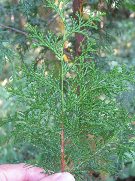 Thread_leaf_of_Chamaecyparis_obtusa (hinoki cypress) ヒノキの葉 ヒノキ科ヒノキ属